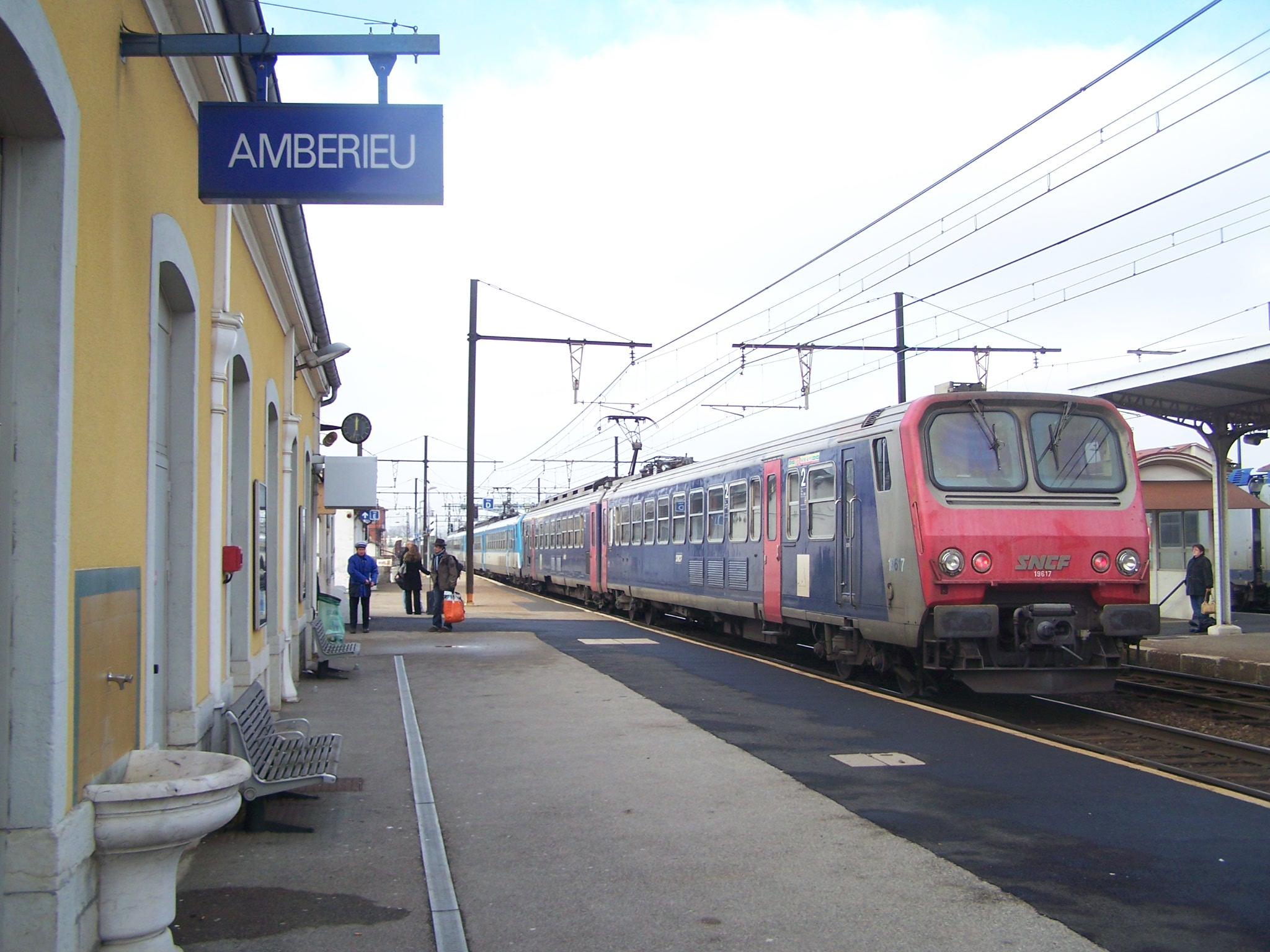 French regional train coming from Chambéry in Savoie and bound for Lyon is leaving the Ambérieu station in Ain.